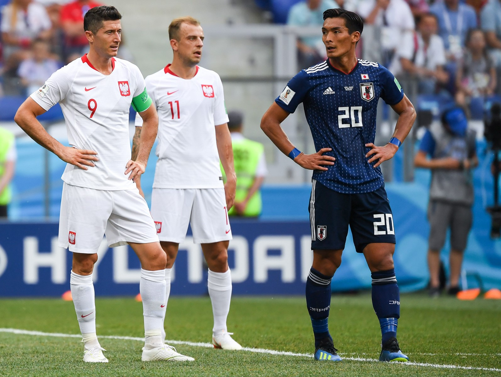 Robert Lewandowski, Kamil Grosicki, Tomoaki Makino.